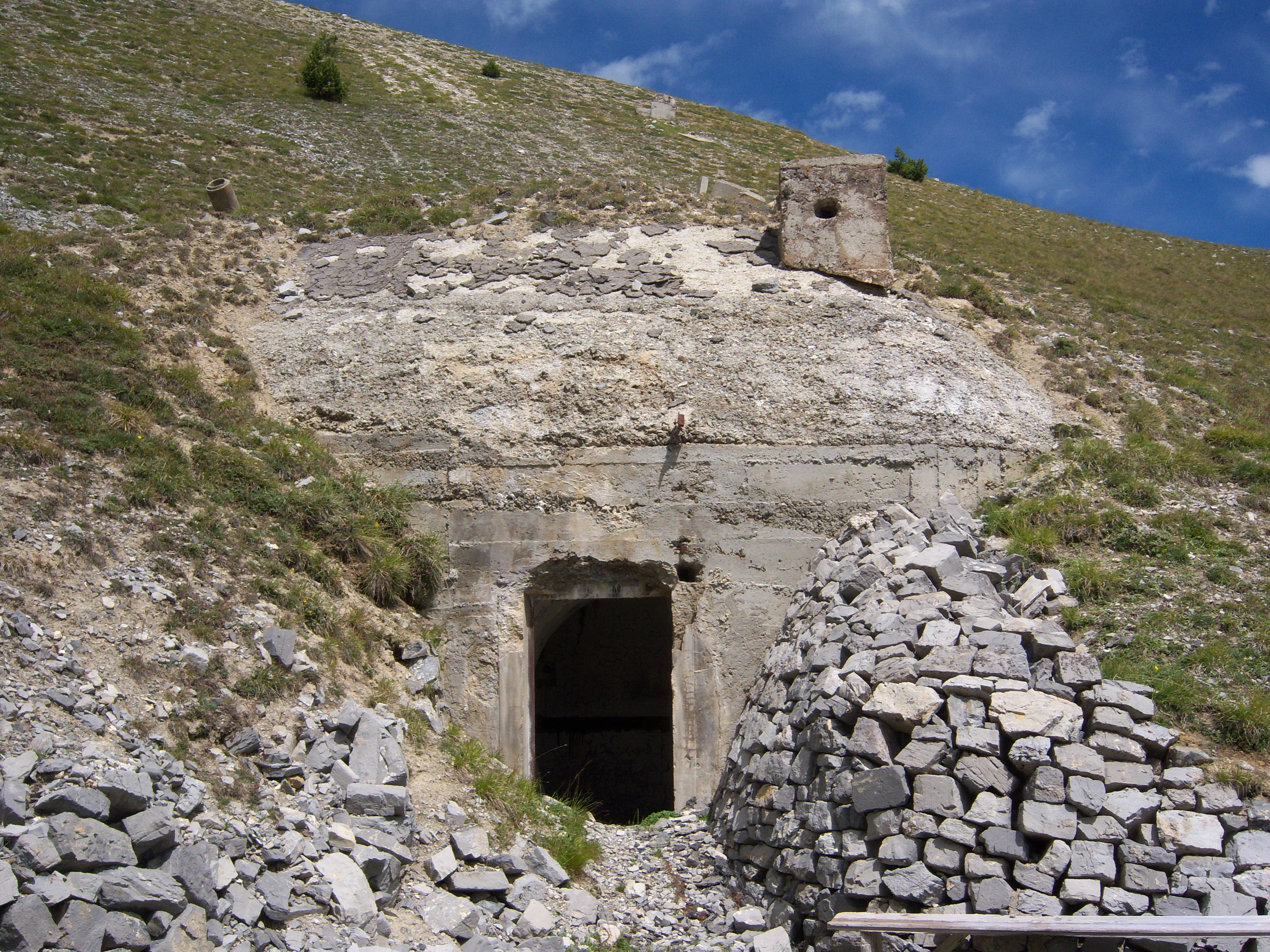 Entrance of the B4 battery at the Quattro Sorelle Mount